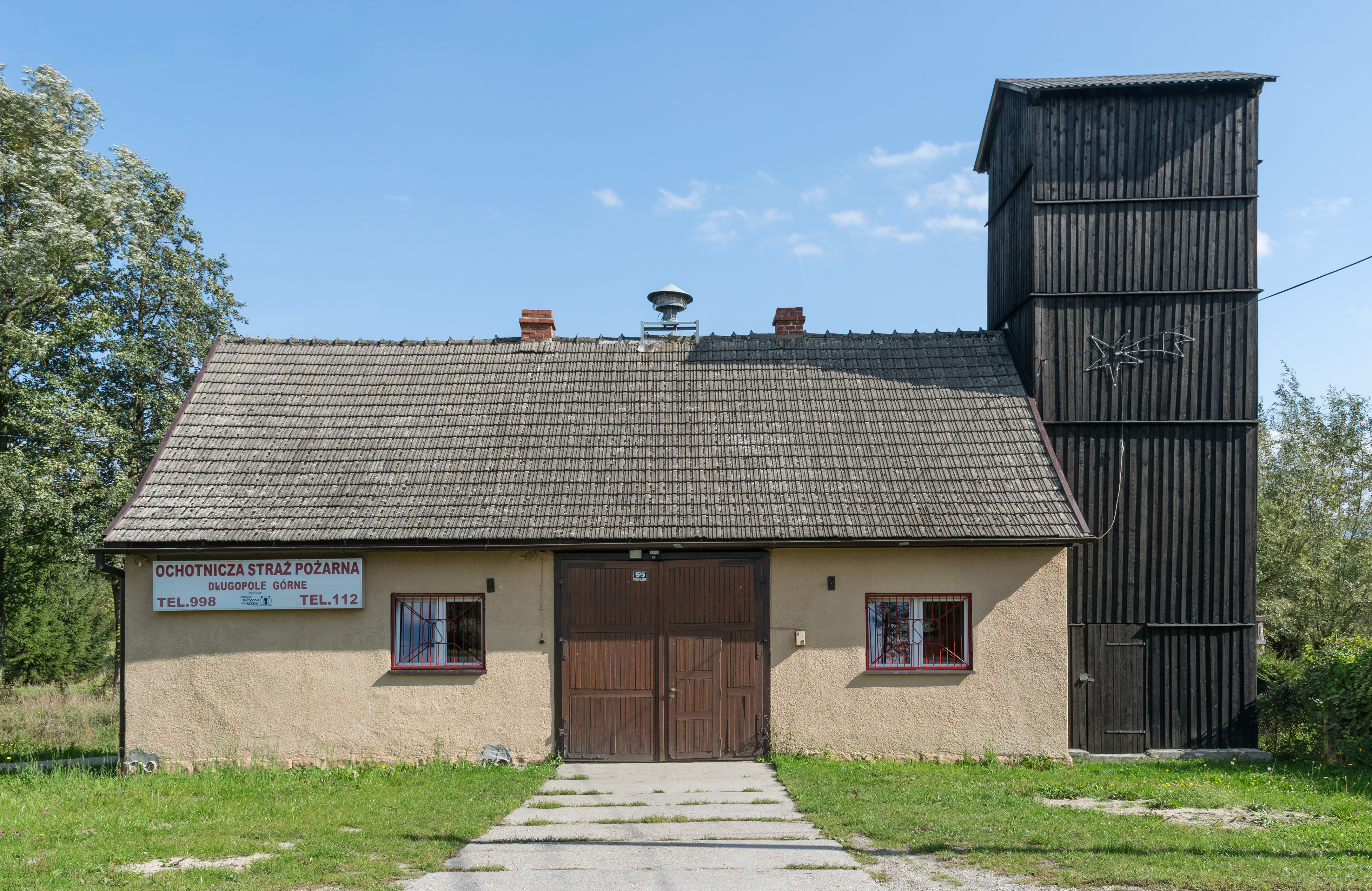 Fire station in Długopole Górne